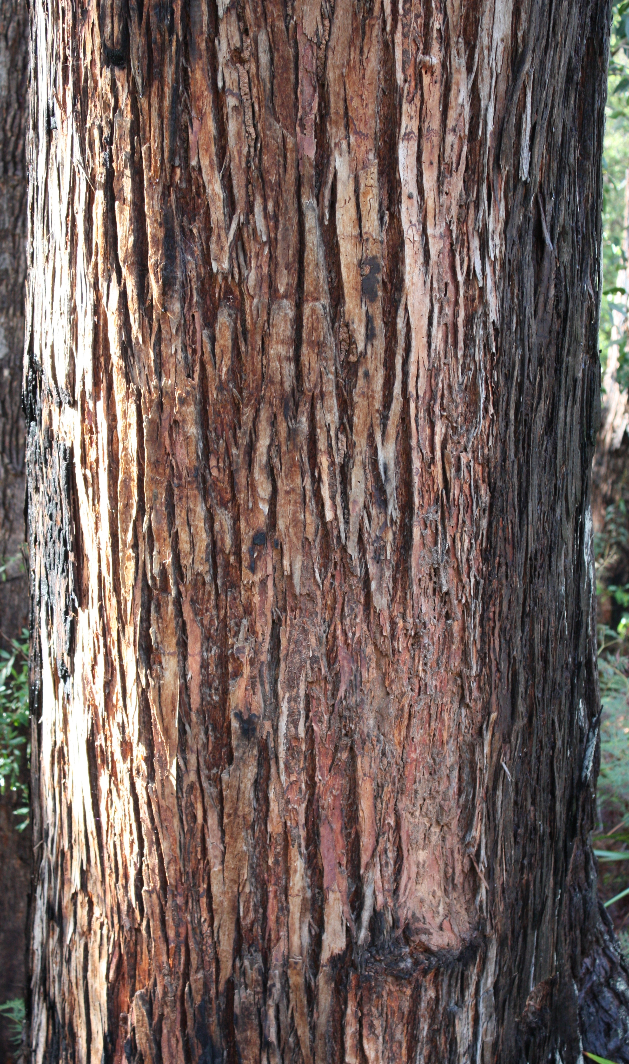 Trunk and bark of Eucalyptus marginata (Jarrah). Photo taken near Barrabup Pool on the Blackwood River near Nannup, Western Australia.